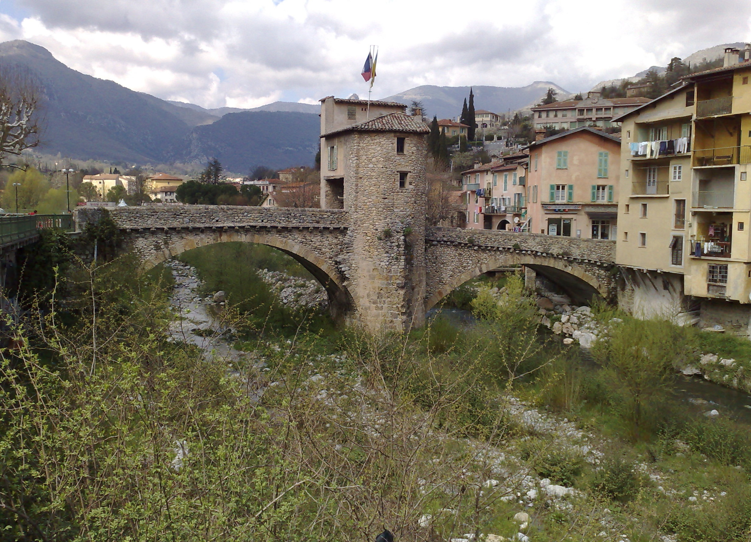 Sospel-PonteVecchio